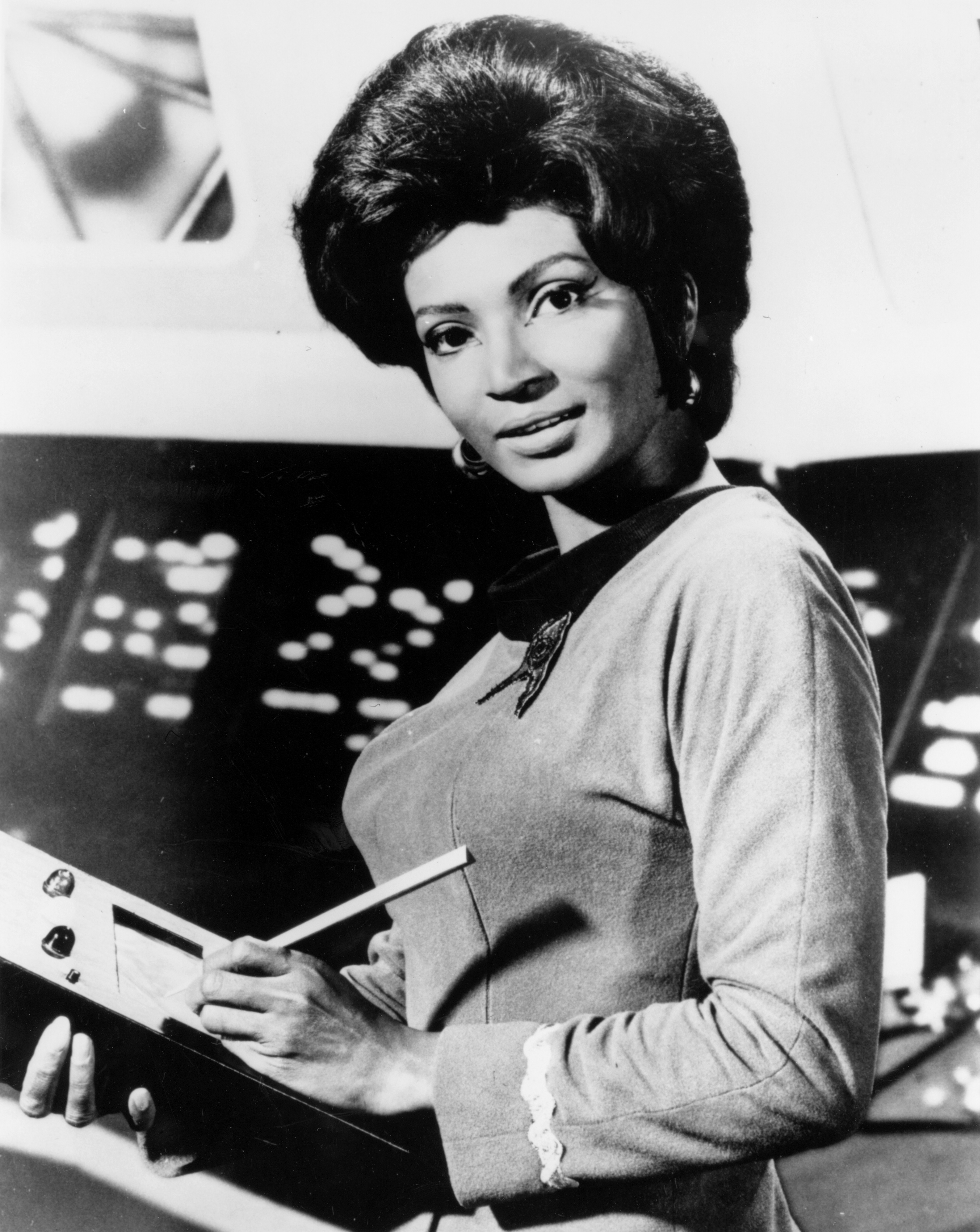 Actress Nichelle Nichols was born in Robbins, Illinois on December 29, 1936. She played Lieutenant Uhura the Communications Officer on the U.S.S. Enterprise in the original series, Star Trek. Nichols stayed with the show and has appeared in six Star Trek movies. Her portrayal of Uhura on Star Trek marked one of the first non-stereotypical roles assigned to an African-American actress. She also provided the voice for Lt. Uhura on the Star Trek animated series in 1974-75. Before joining the crew on Star Trek, she sang and danced with Duke Ellington's band. Nichols was always interested in space travel. She flew aboard the C-141 Astronomy Observatory, which analyzed the atmospheres of Mars and Saturn on an eight hour, high altitude mission. From the late 1970's until the late 1980's, NASA employed Nichelle Nichols to recruit new astronaut candidates. Many of her new recruits were women or members of racial and ethnic minorities, including Guion Bluford (the first African-American astronaut), Sally Ride (the first female American astronaut), Judith Resnik (one of the original set of female astronauts, who perished during the launch of the Challenger on January 28, 1986), and Ronald McNair (the second African-American astronaut, and another victim of the Challenger accident). Currently Nichelle Nichols is actively involved in movies and special appearances. She is also a spokesperson for her favorite charity, "The Kwanzaa Foundation."